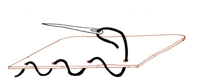 Illustration (drawn by me with pen an paper) of a whip stitch. This stitch is used when lacing leather work.